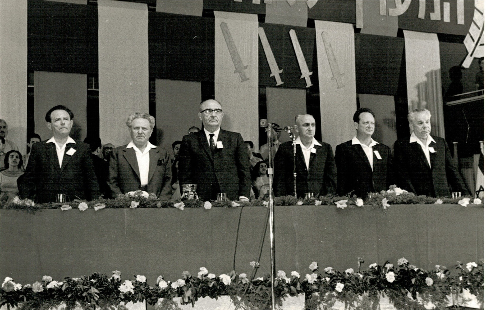 From right to left: Mordechai Ish-Shalom, Yigal Alon, Reuven Barkat, Levi Eschol, Yisrael Galili and Aharon Becker